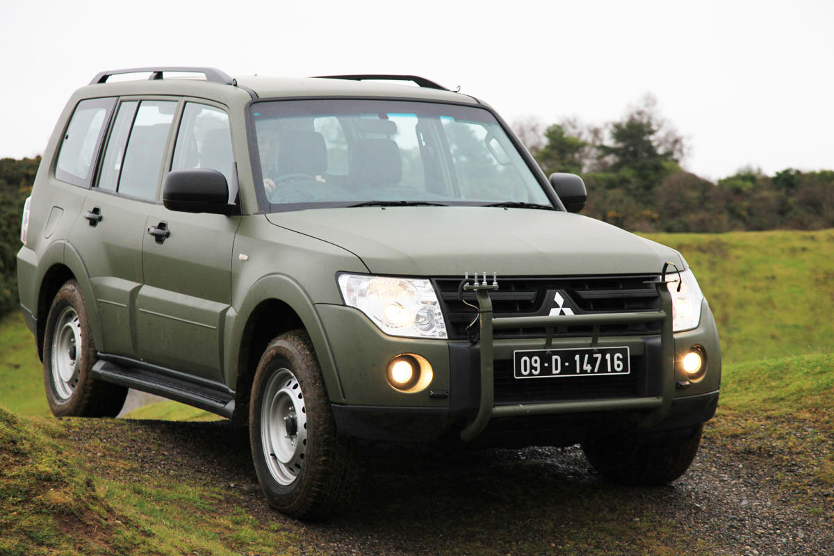 New Defence Forces Pajero Vehicle